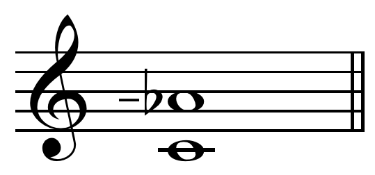 Pythagorean minor sixth on C = A♭- (Ben Johnston's notation). 128:81 = 792.18 cents. Limit: 3-limit.